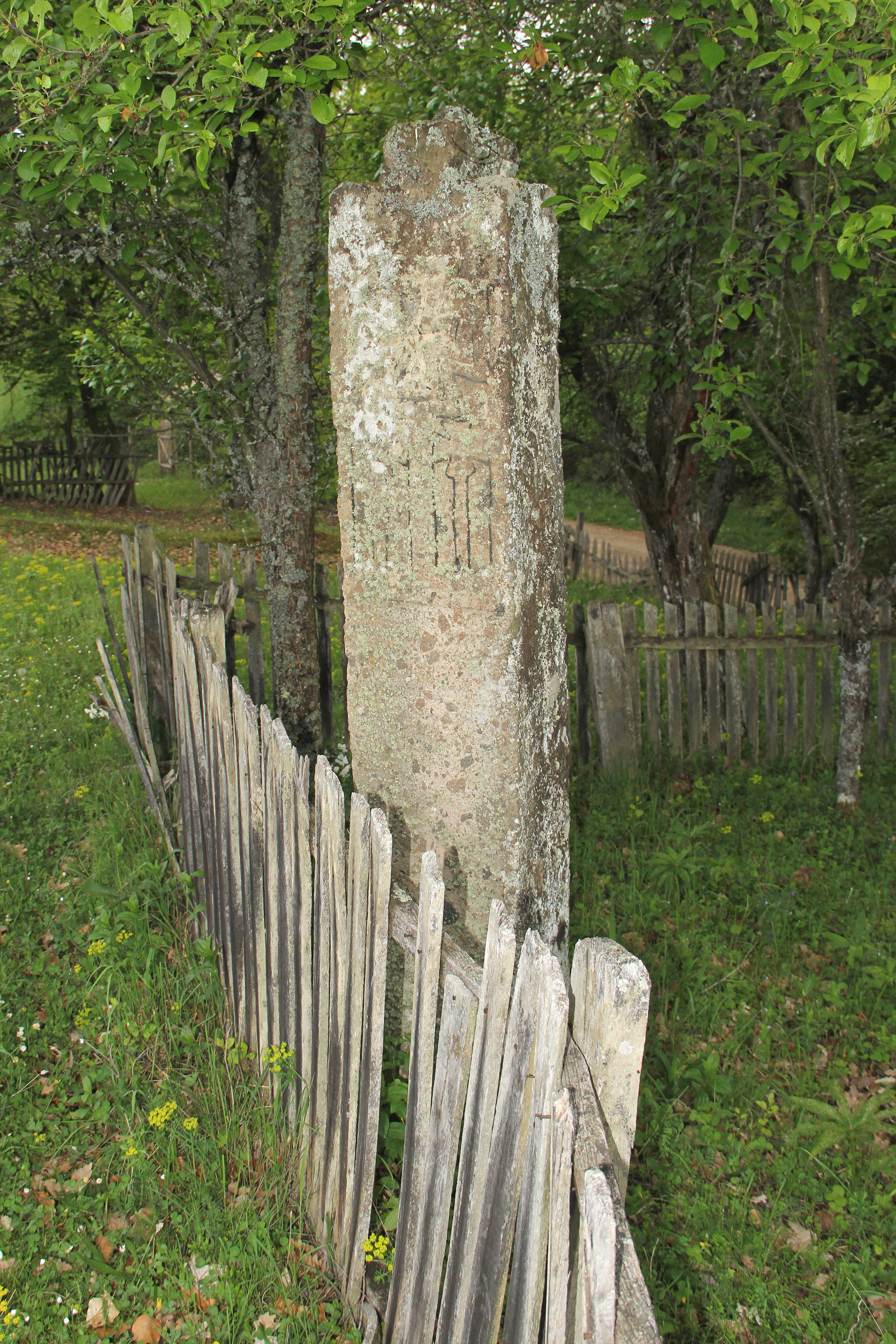 An old roadside memorial to Spasoje Nikitovic at the village of Drenova (the municipality of Gornji Milanovac), Serbia.